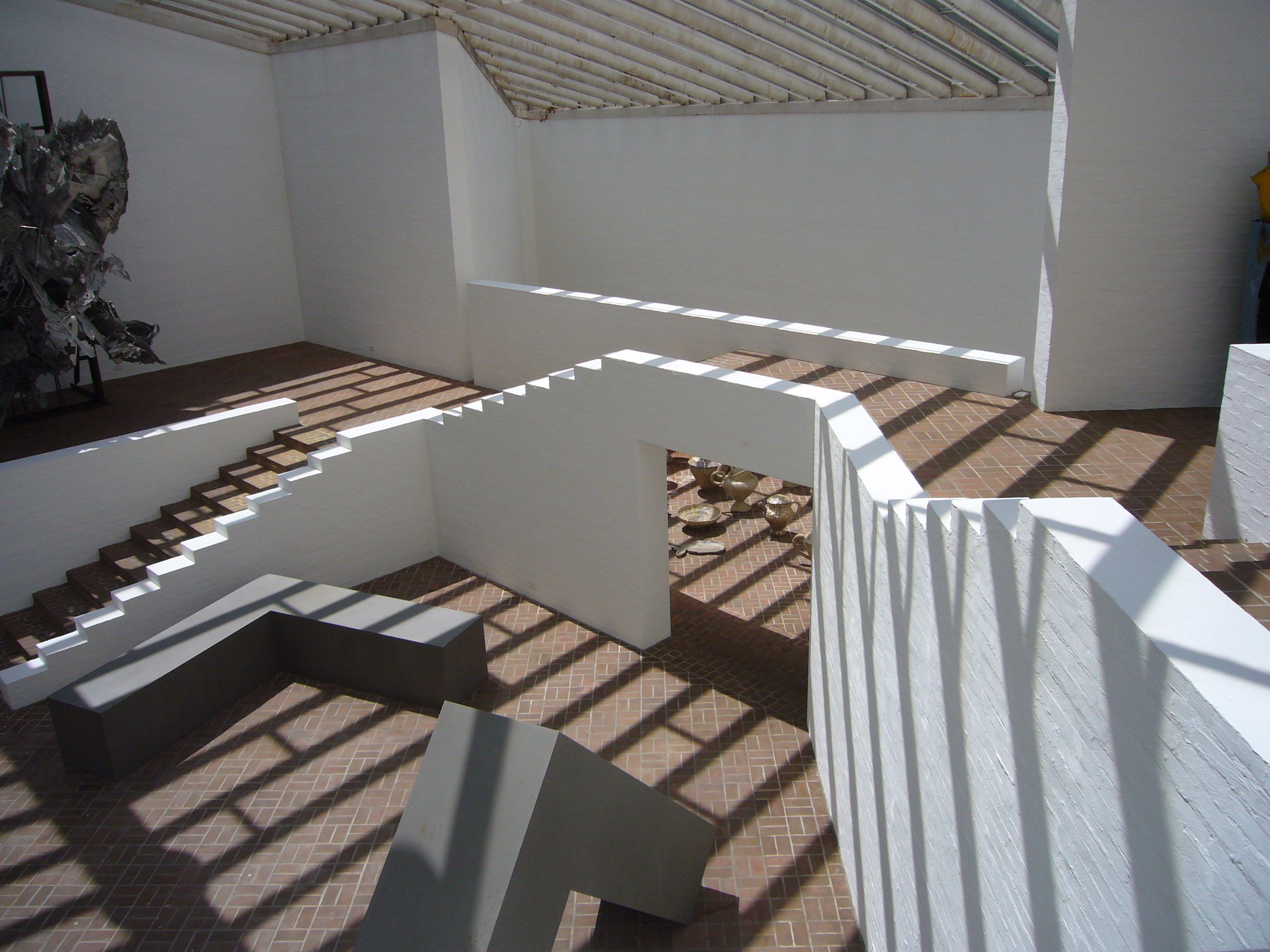 Sculpture Gallery (interior) at Philip Johnson's Glass House, New Canaan, CT, USA